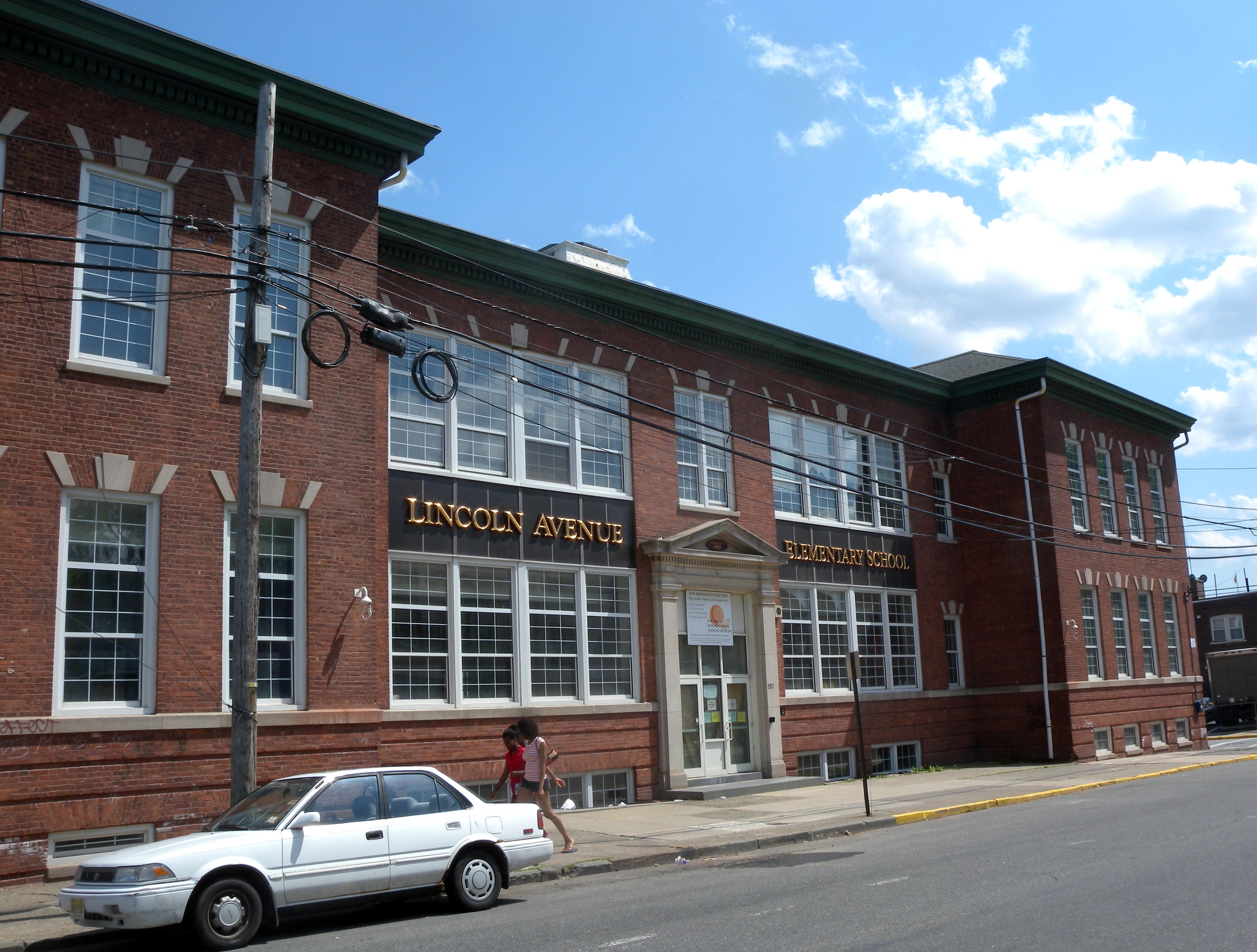 Looking south at Lincoln Avenue Elementary School in southwestern Orange, New Jersey on a sunny midday.